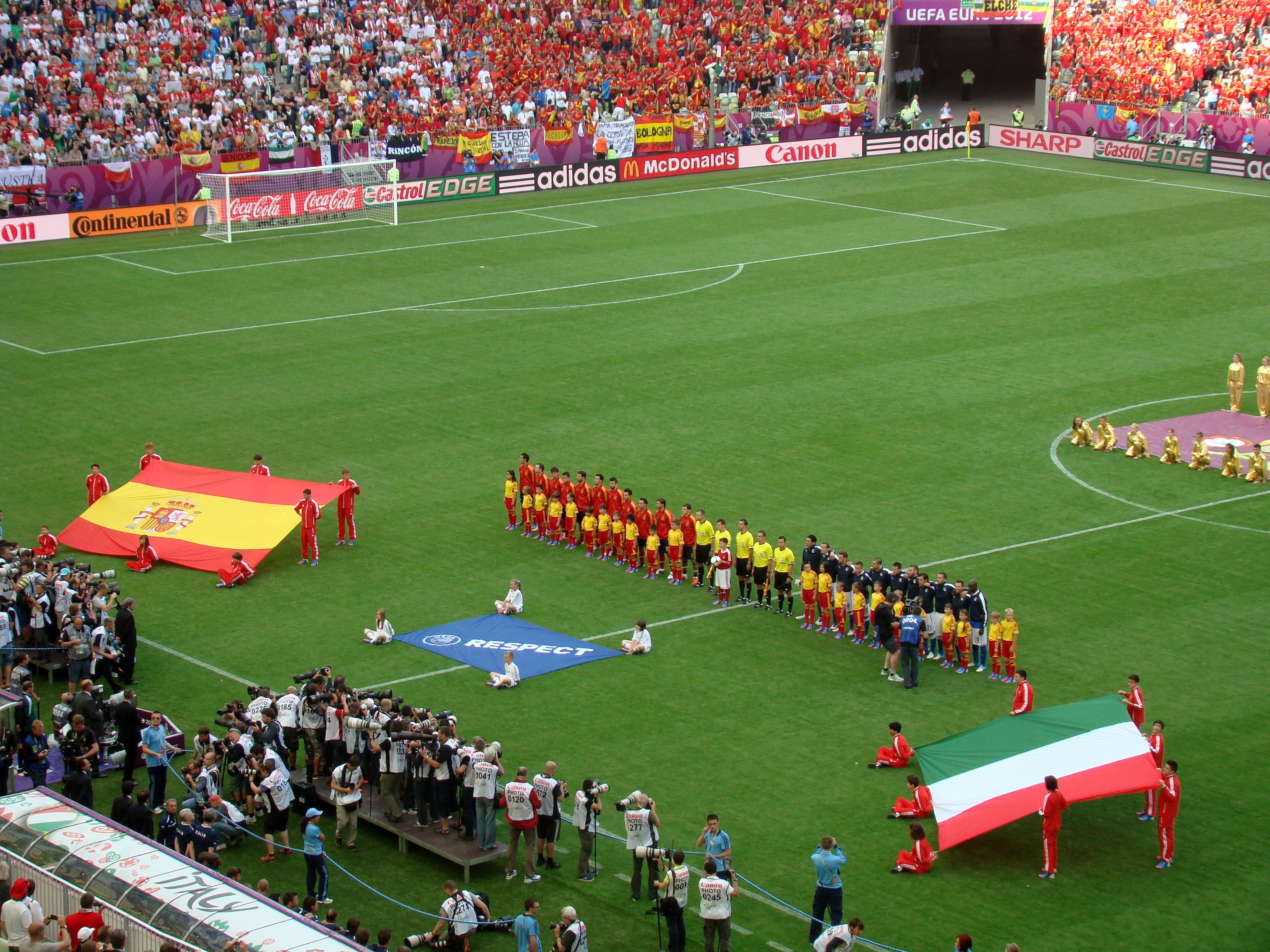 National teams of Spain and Italy before the match in Gdańsk during Euro 2012